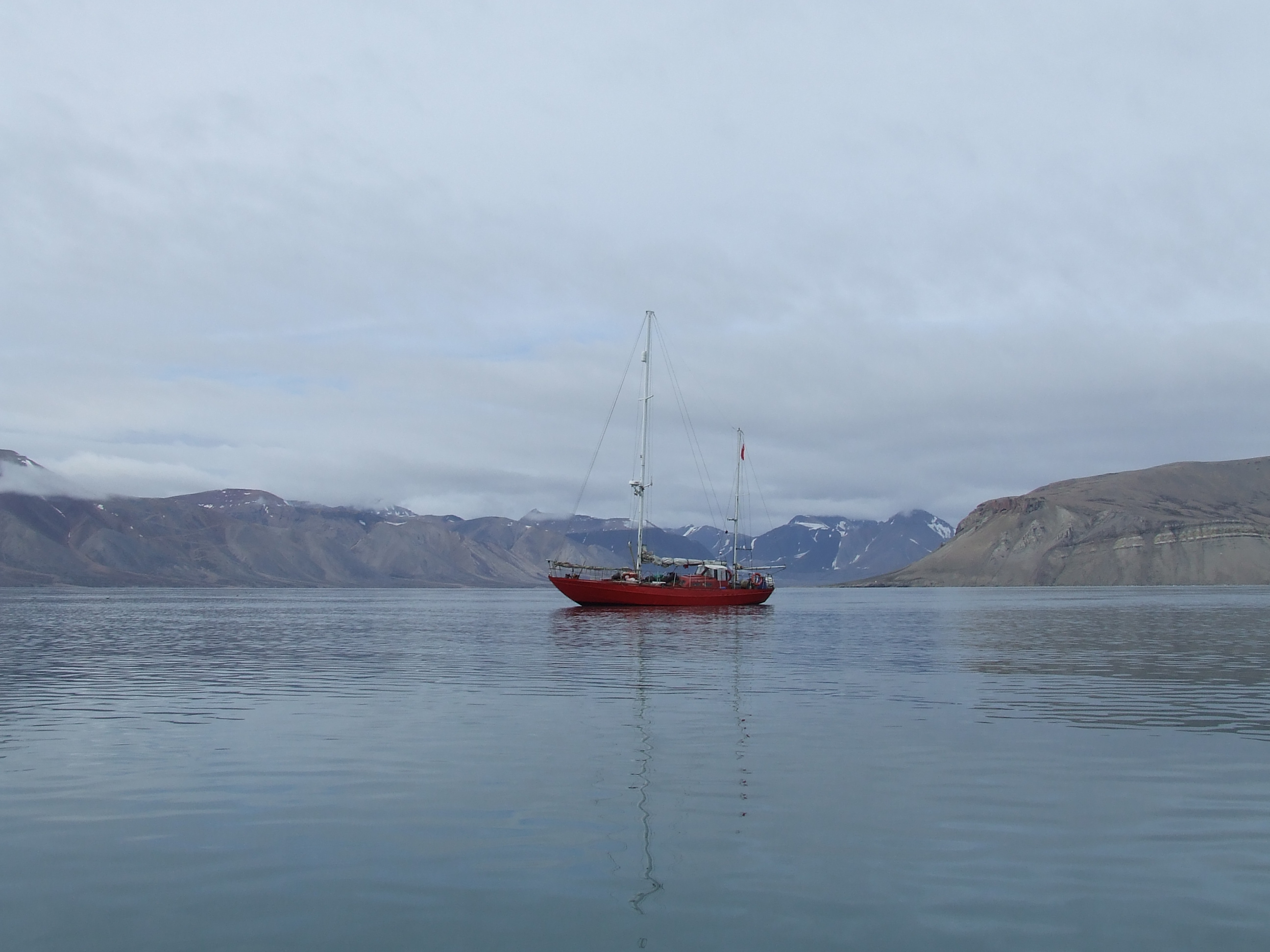 SV Eltanin in Brucebyen, Spitsbergen (in the background former Soviet mining settlement Piramiden)